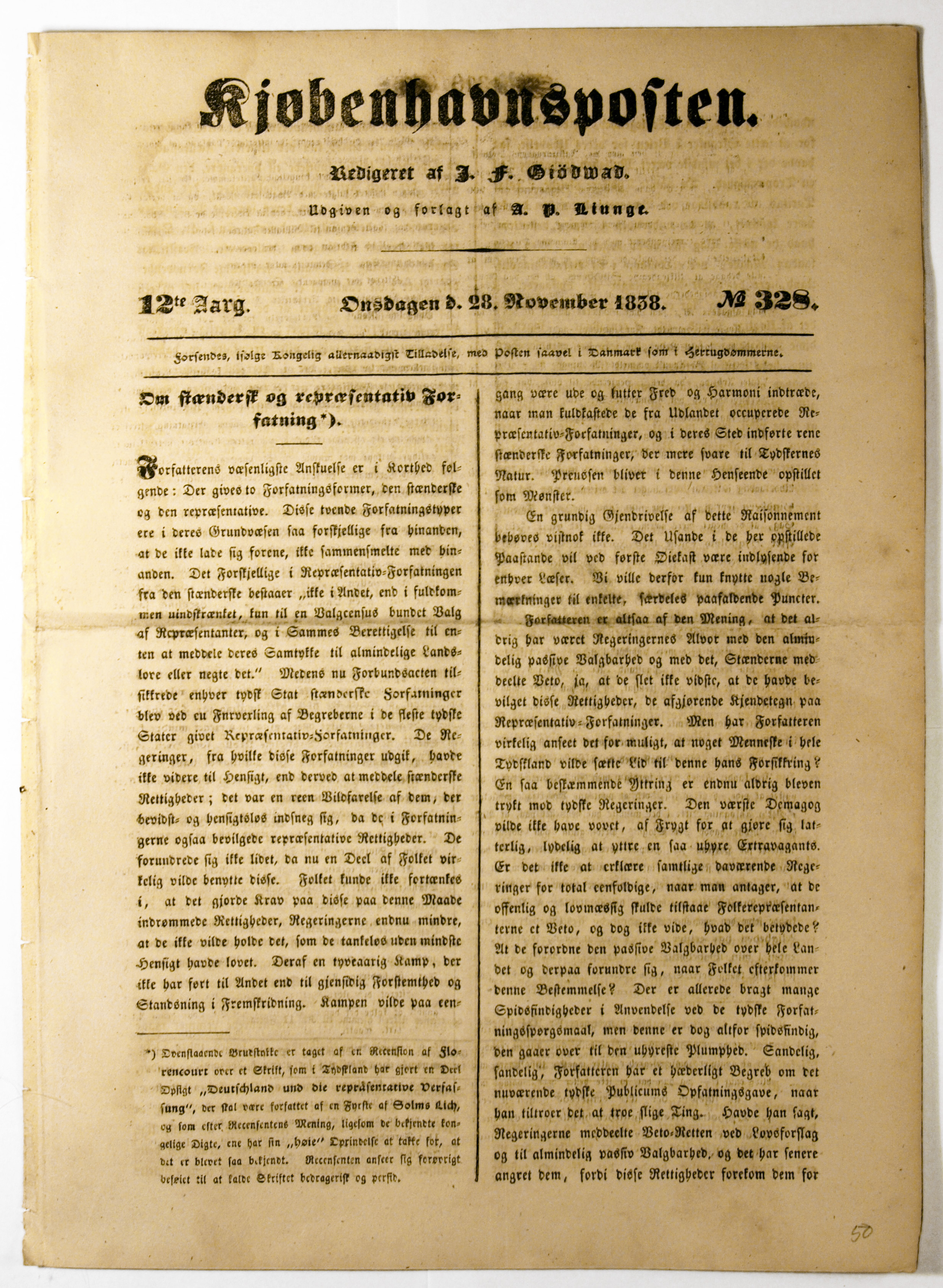 Frontpage of the Danish newspaper "Kjøbenhavnsposten", November 28th, 1838. The article is about democracy. The heading is "On Estate and representative constitution.". Kjøbenhavnsposten was an oppositional newspaper that campaigned for a democratic constitution to replace the absolutist monarchy in Denmark. Even though the strict censorship rules had been somewhat slackened during the 1830s on account of the introduction of an estates general in Denmark, the laws against political propaganda against the government remained strict. A widely used method to circumvent the censorship laws was to employ "strawman" editors who were paid to receive the fines or jail sentences that followed the transgressions of the law. Another method was to use translations of foreign articles that dealt with matters that, even though seemingly about foreign affairs, could easily be applied to political conditions in Denmark. Such is the case with the article on the scan of this edition of the newspaper. The article is a concise version of a book review originally written in German by the journalist Franz Chassot von Florencourt. Florencourt reviews the book "Deutschland und die repräsentative Verfassung" ("Germany and the representative Constitution"), which was allegedly written by a Prince von Solms Lich, that condemns the representative constitution. Although the article is entirely about German affairs, there is no doubt that the message is aimed at the Danish political situation. Among other things, the note in connection with the headline conveys the information that Florencourt in the full version of the book review calls the book "traitorous" and "perfidious".